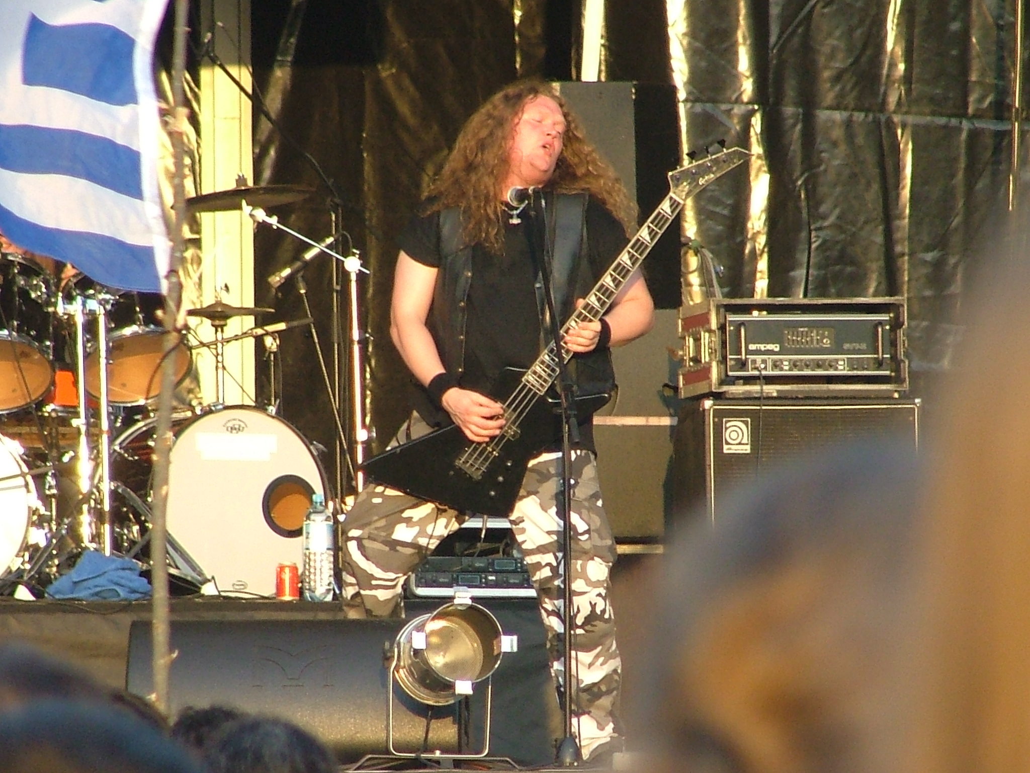 Swedish death metal band Unleashed at the Metalcamp in Tolmin